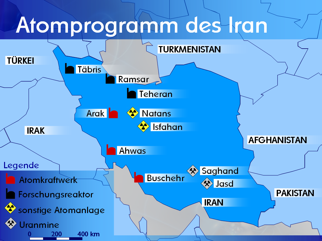 Nuclear program of Iran